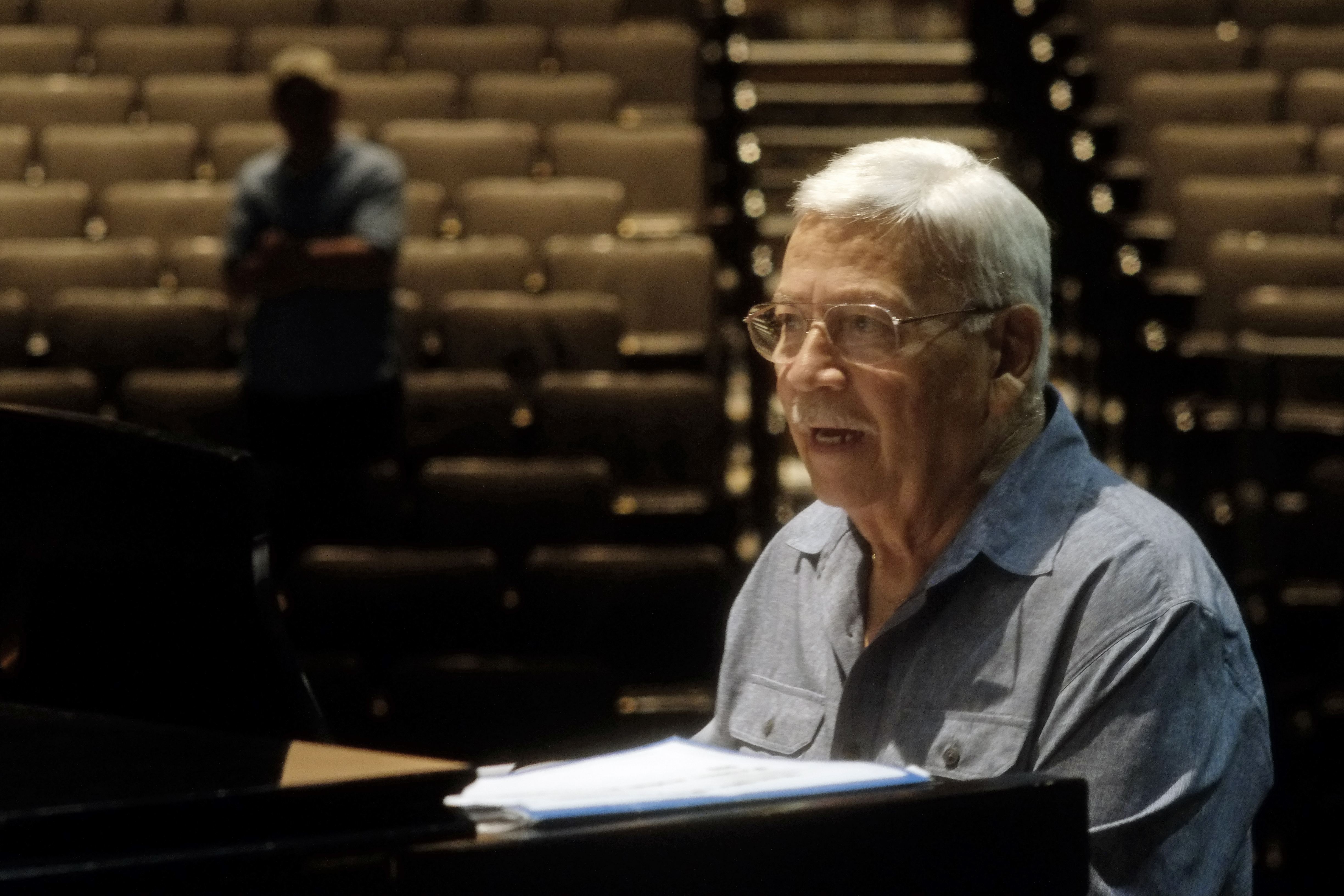 Pete Rodriguez, legendary boogaloo musician, rehearses before a recent gig at Hostos Community College in Bronx, NY.